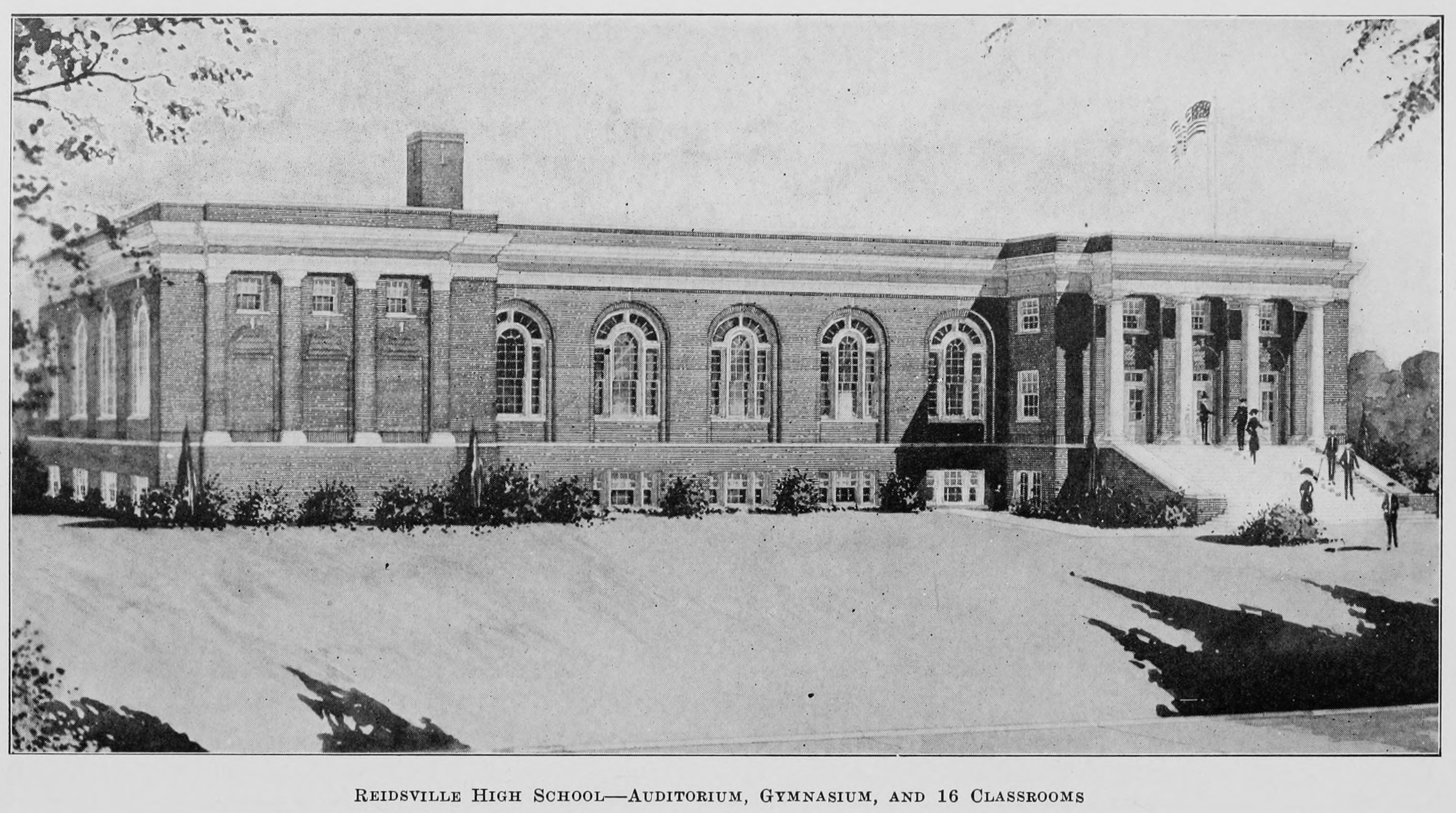 The NRHP-listed former Reidsville High School in Reidsville, North Carolina.